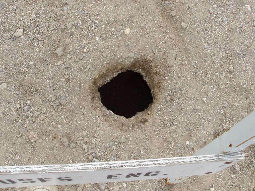 Little Hot Creek fumarole, in the Long Valley Caldera, Mono County, California.